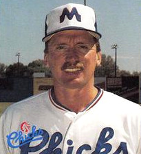 Professional baseball coach Ken Kravec